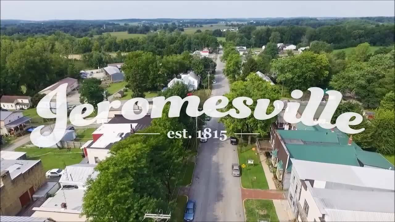 An aerial view of Jeromesville with the cover image.